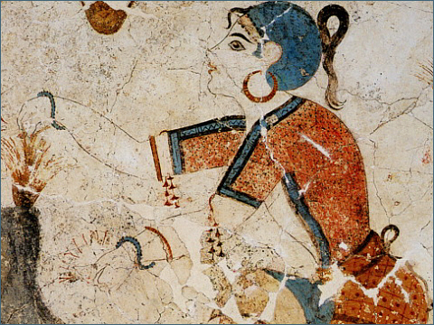 Detail of saffron-picking girl from an Akrotiri fresco.